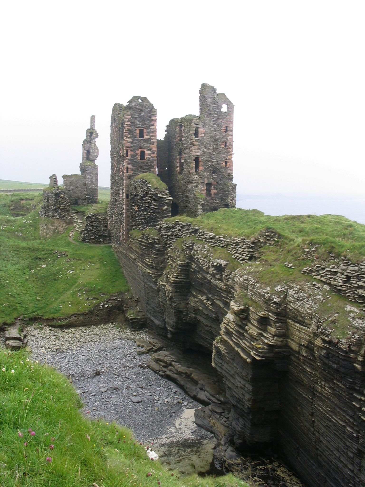 Castle Sinclair Girnigoe in summer 2004.